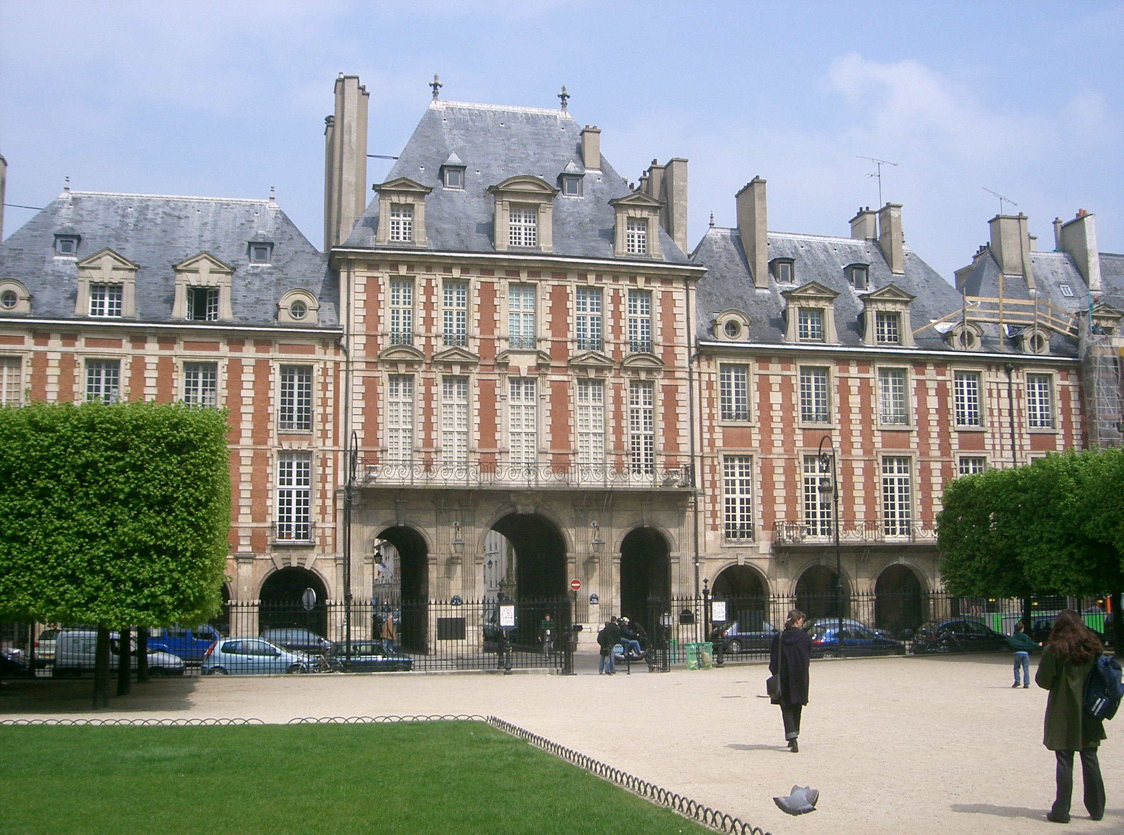 Place des Voges in Paris, here: Pavillon de Reine at the north side. Renaissance ensemble, built by King Henry IV. early 17th century.